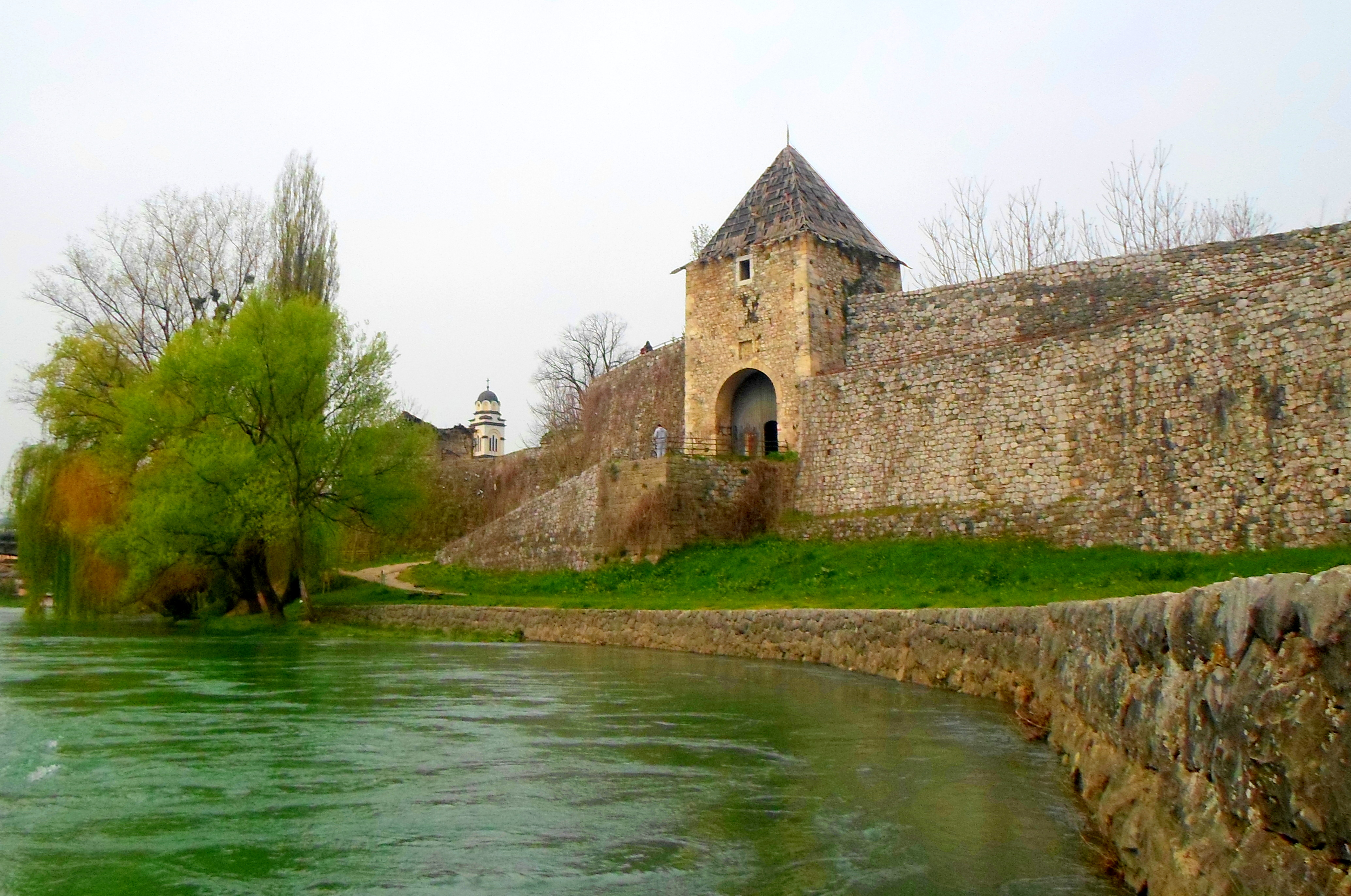 This image was uploaded as part of Trace of Soul 2016. Banjalucka tvrdjava Kastel